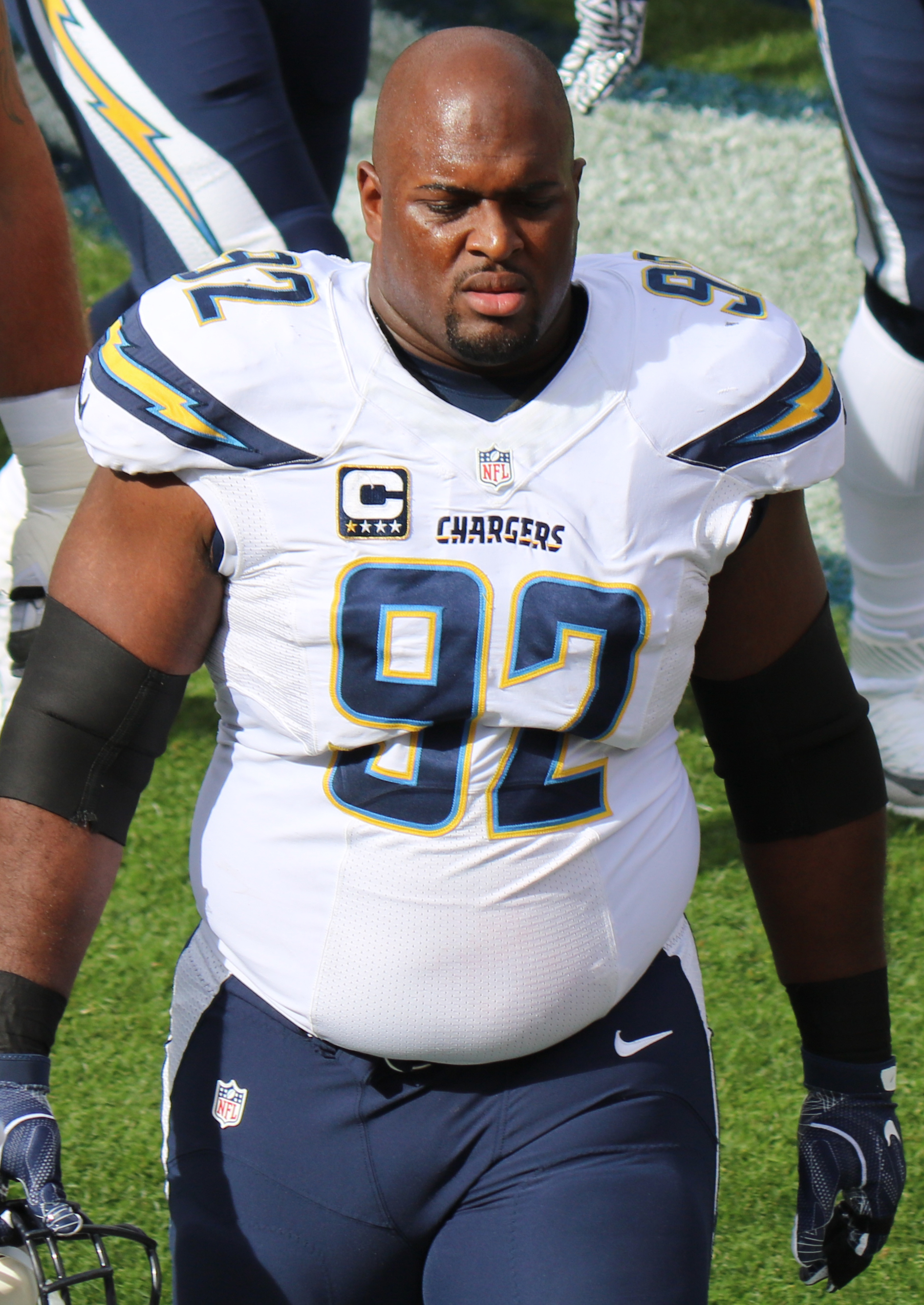 Brandon Mebane, a player on the National Football League.